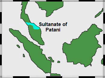 Map of the Patani Kingdom or Sultanate of Patani. Based on by user L joo